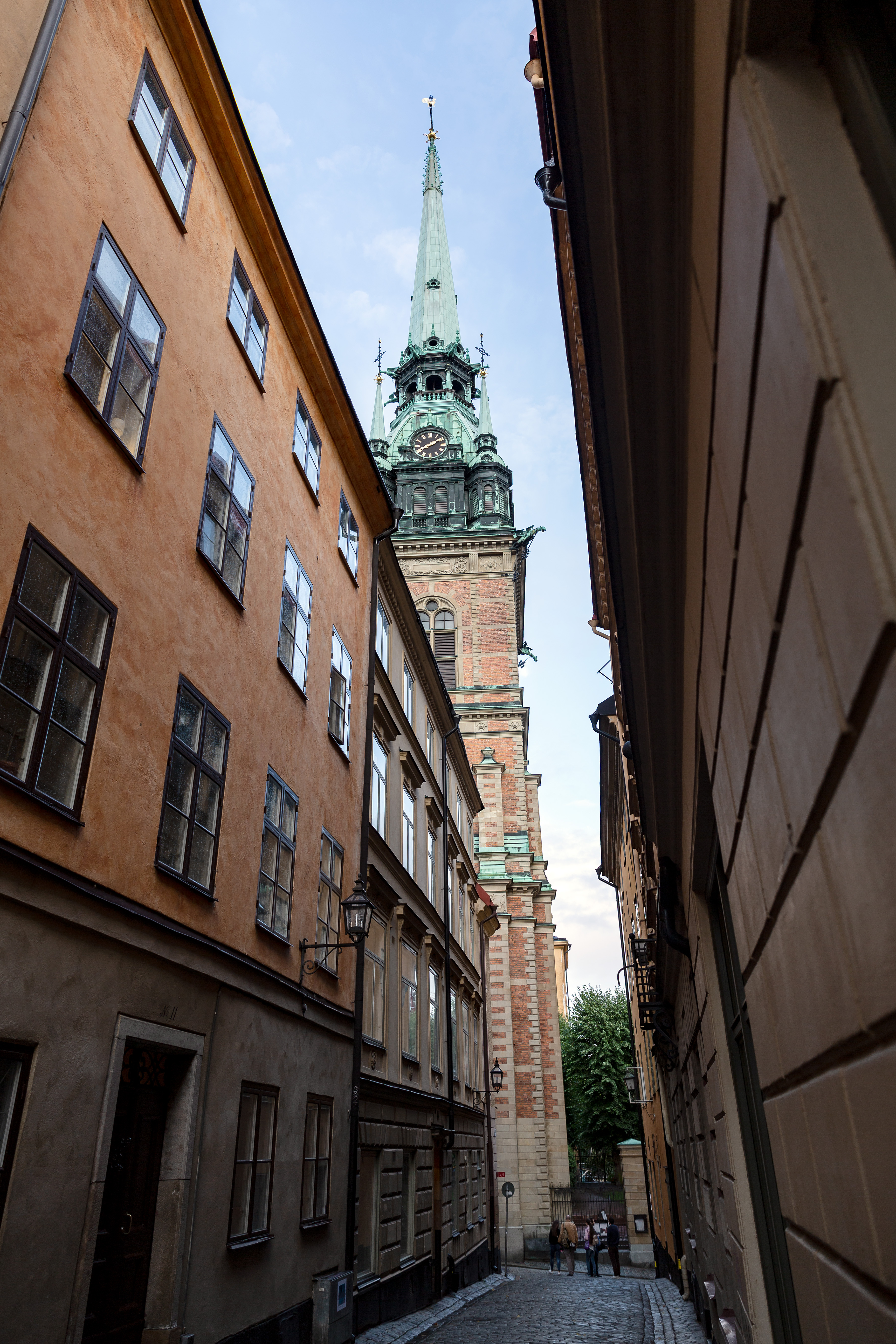 Gamla stan, Skomakargatan, view towards the tower of the German Church (Stockholm, Sweden).